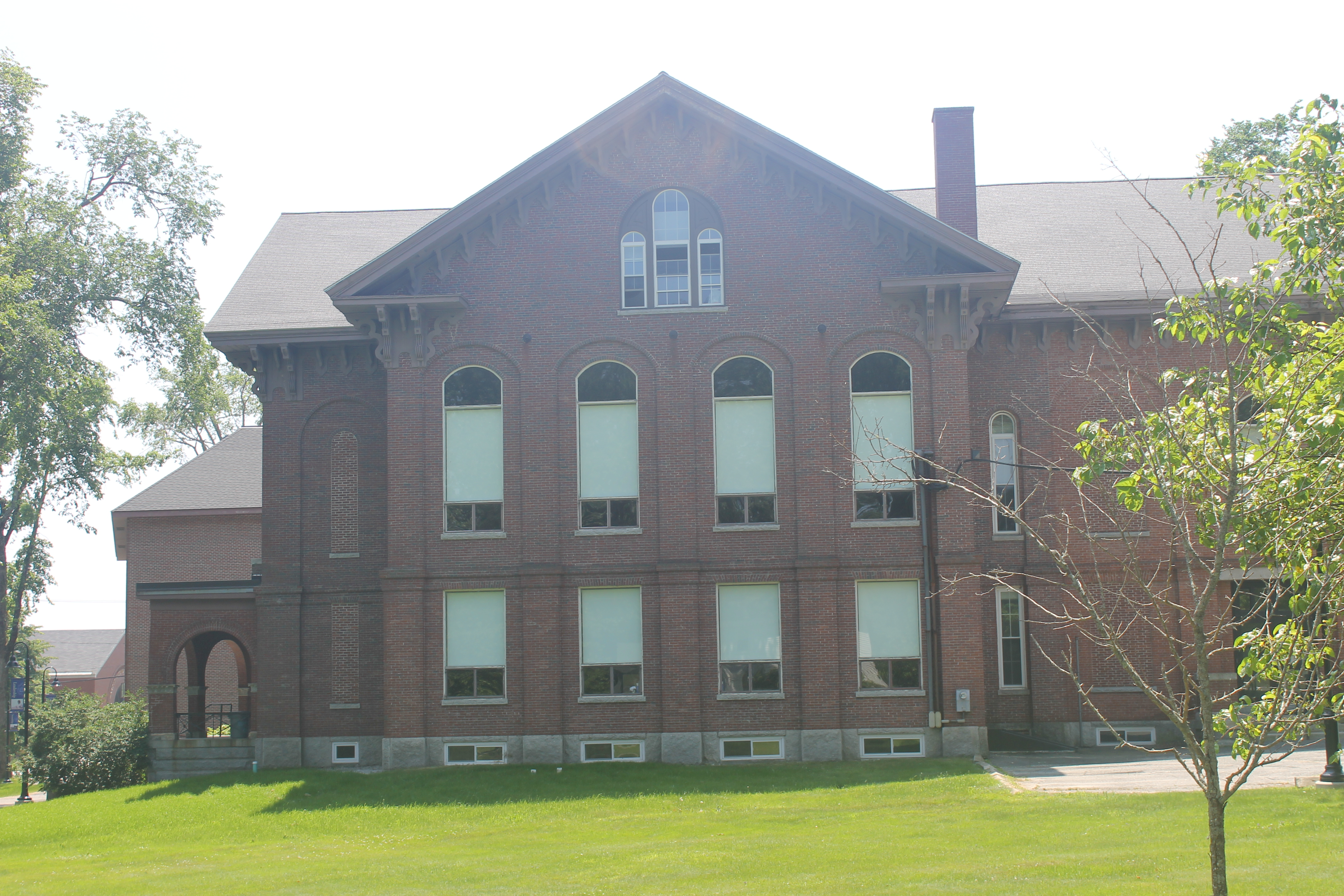 I took photo with Canon camera of Main Campus of Maine Maritime Academy in Castine.